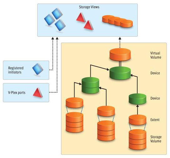 VPLEX Logical Elements